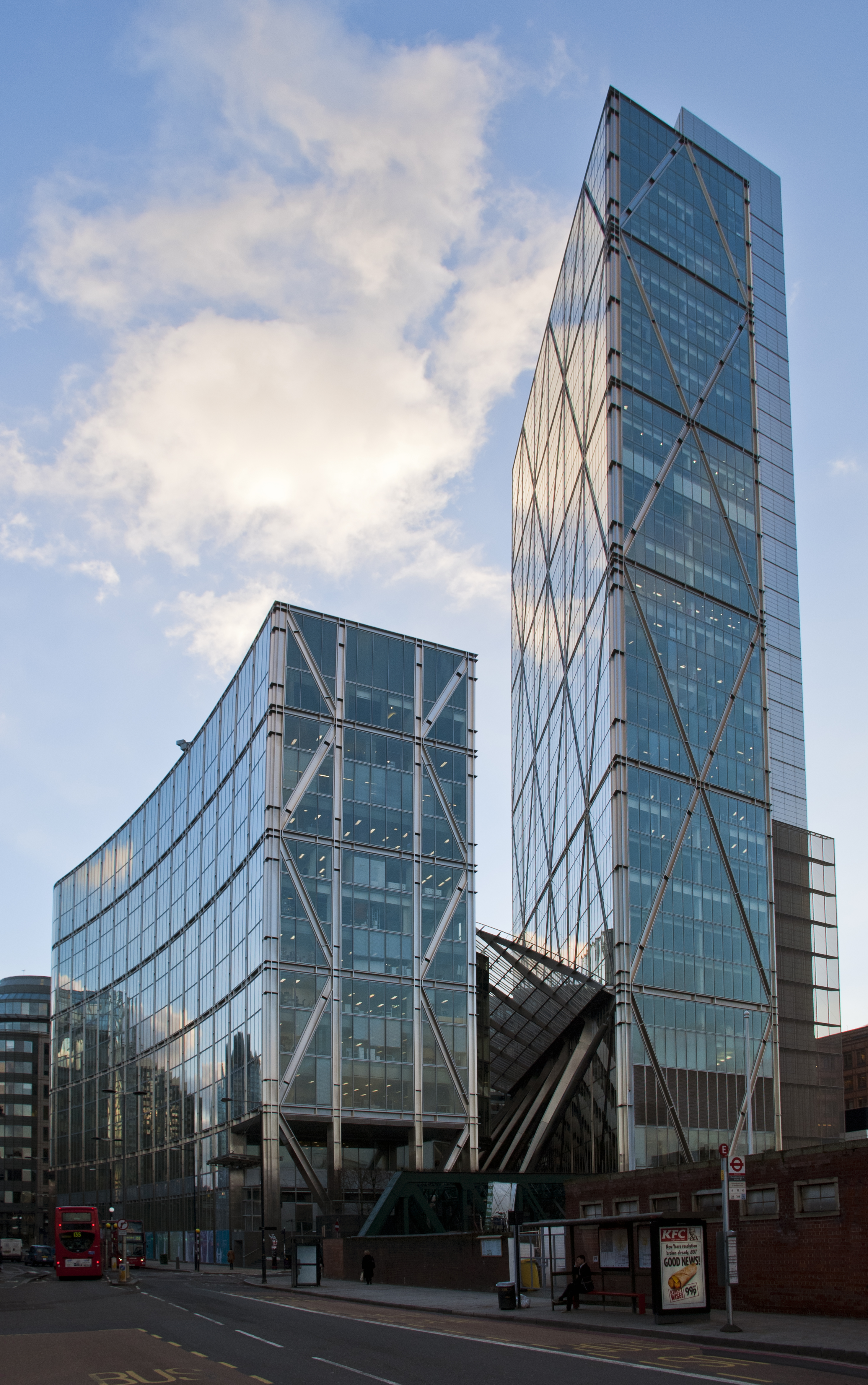 Broadgate Tower & 201 Bishopsgate, City of London.